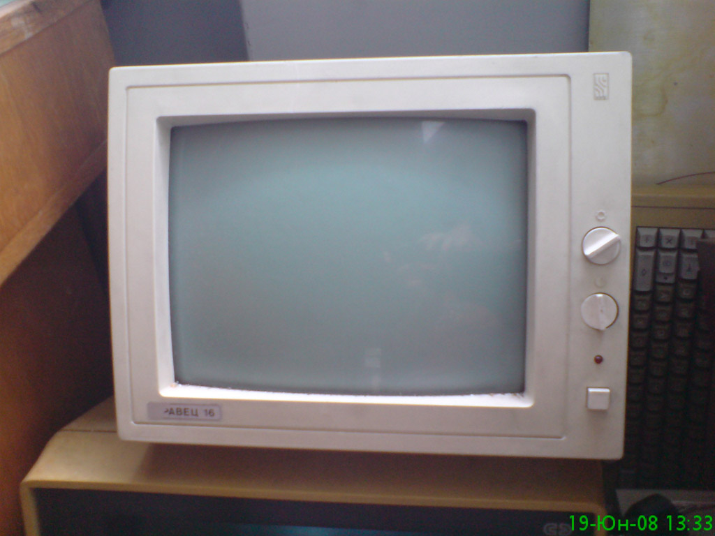 Display of Pravetz-16 computers, stored at optical laboratory in Technical University - Gabrovo, Bulgaria